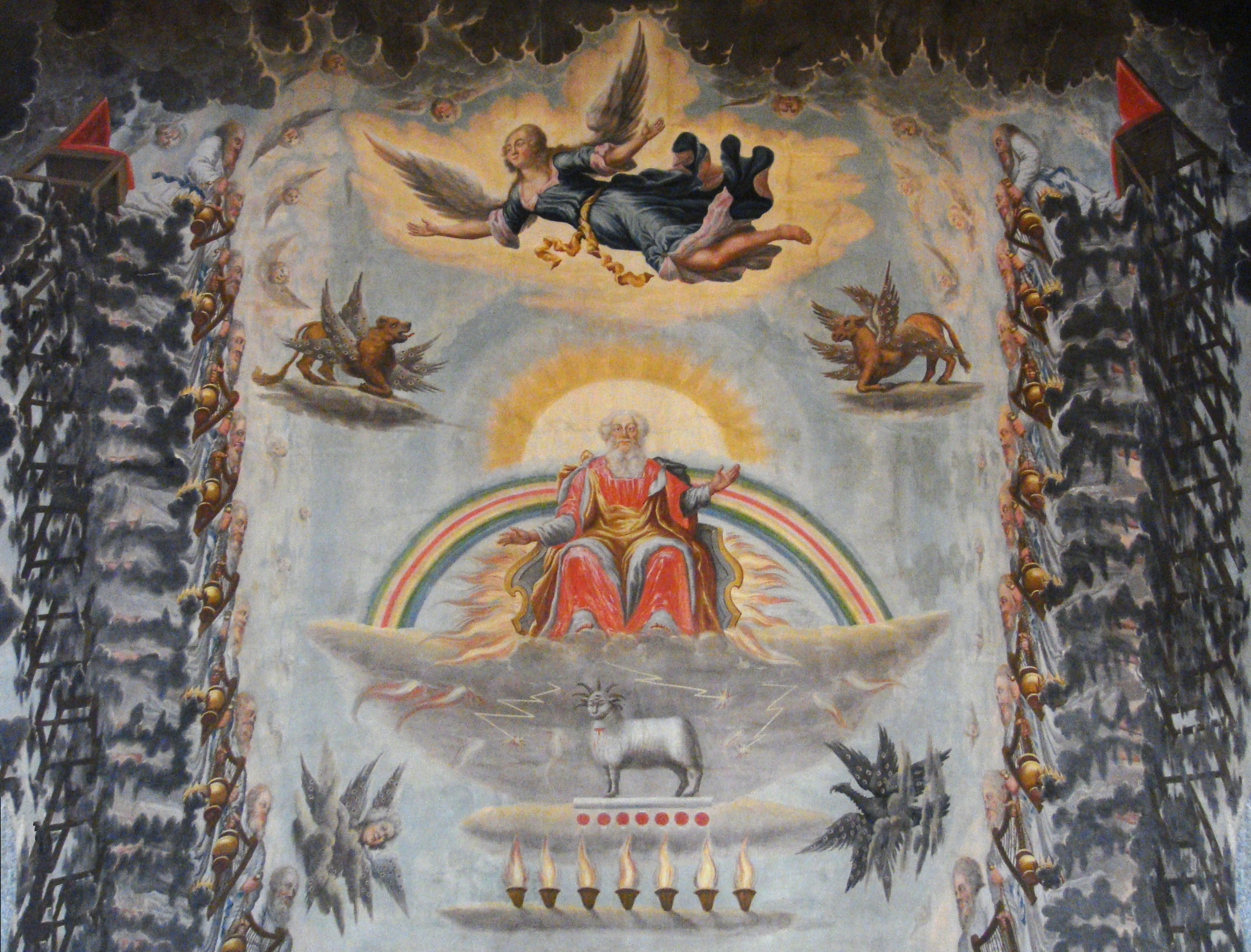 Ceiling painting, Book of Revelation,"Worthy is the Lamb", showing the Lamb, God the Father, an angel, the four Evangelists as symbolic animals, a row af angels with harps, ca. 1670